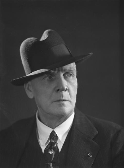 Studio photo